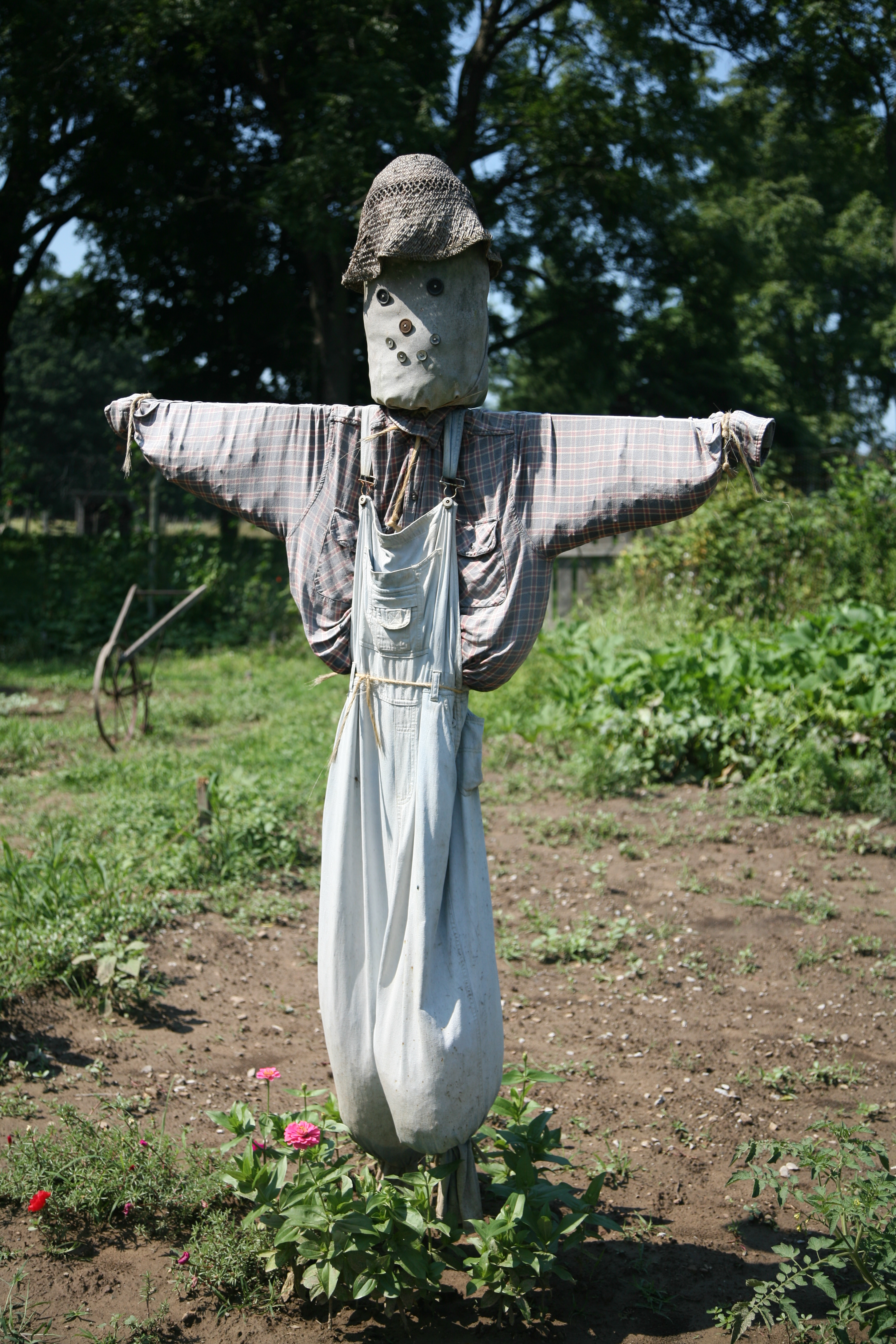 Scarecrow at Chellberg Farm